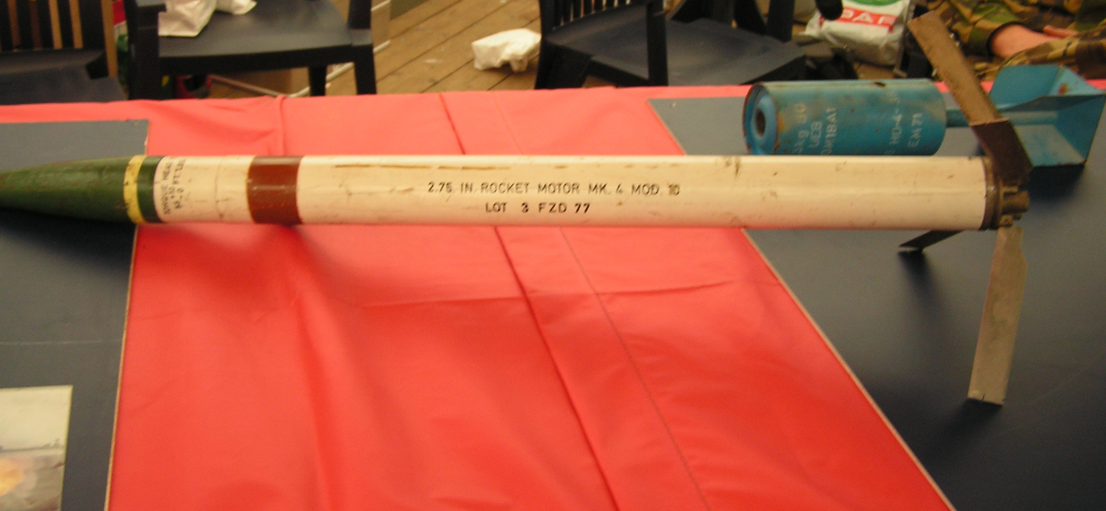 A Mk 4 mod 10 Folding-Fin Aerial Rocket. In the background is a small bomb, but I don't know the type.